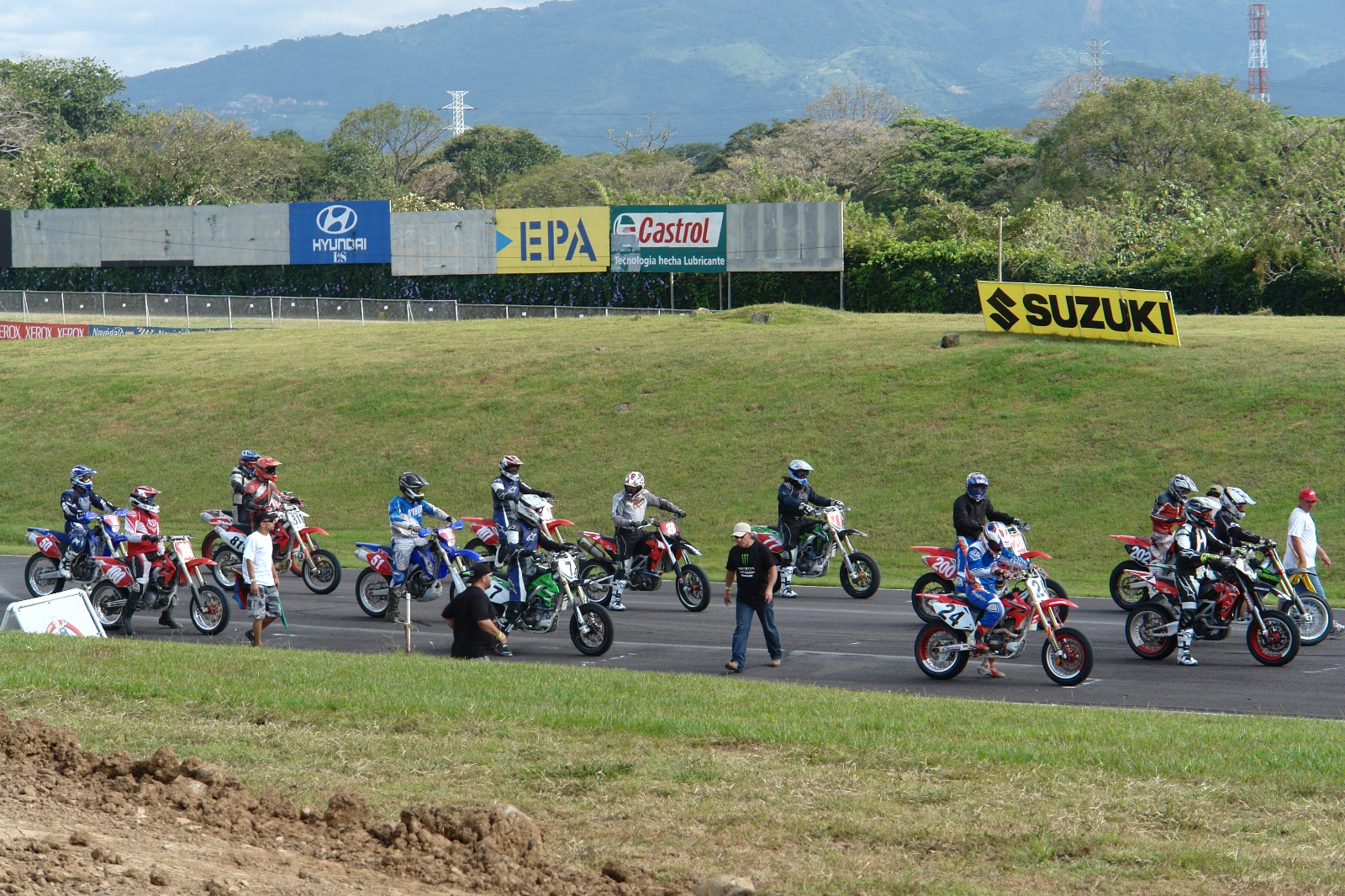 Ivan Sala Supermoto Championship Costa Rica